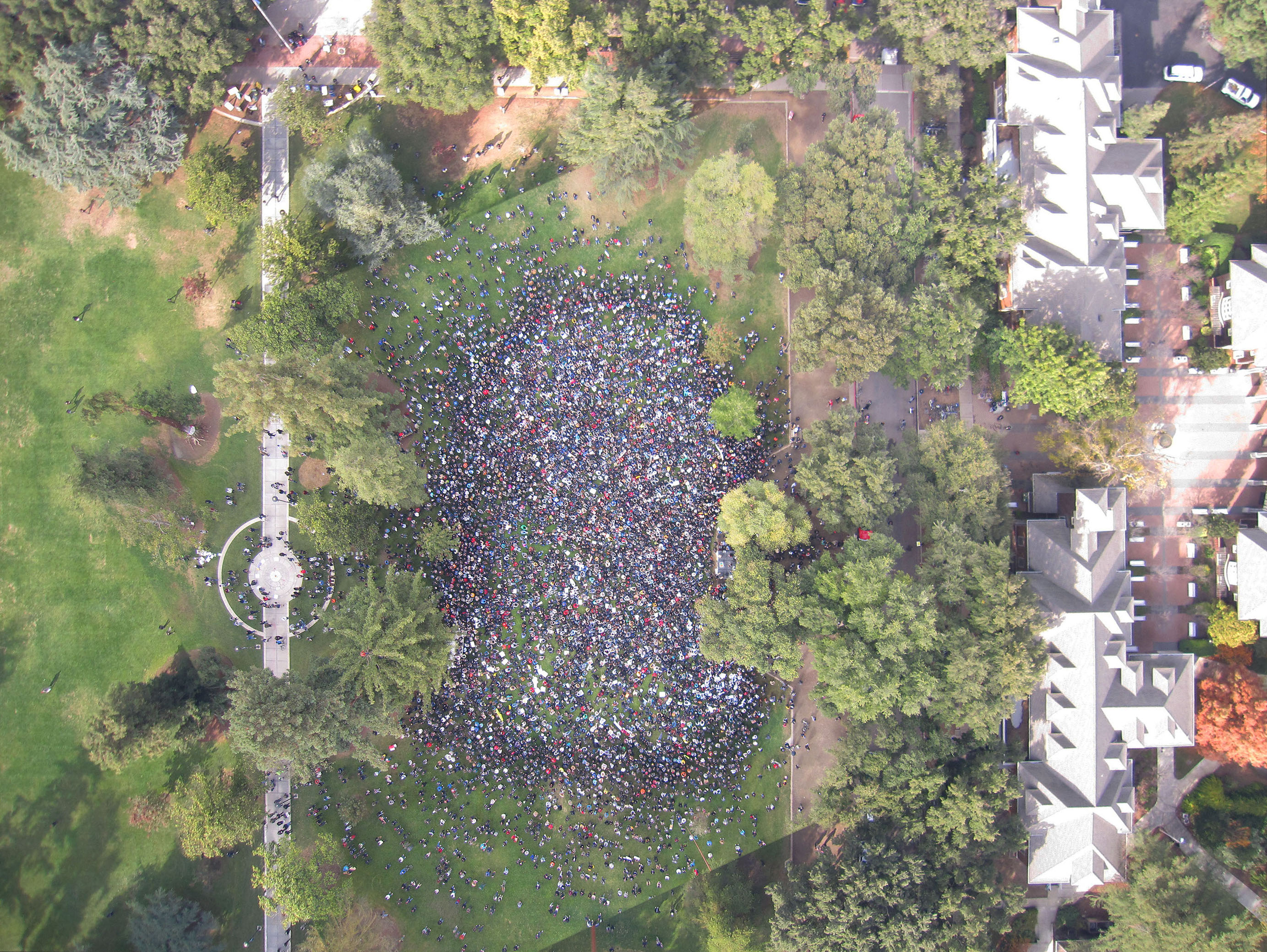 Students, faculty, alumni, and the community in general gathered to voice their disapproval of the pepper spraying of non-violent protestors on campus. This is a processed and stitched set of photos taken with Stewart Long's helium balloon using a point-and-shoot camera and a smart phone.[1] This version was rotated and cropped from the original JPG.